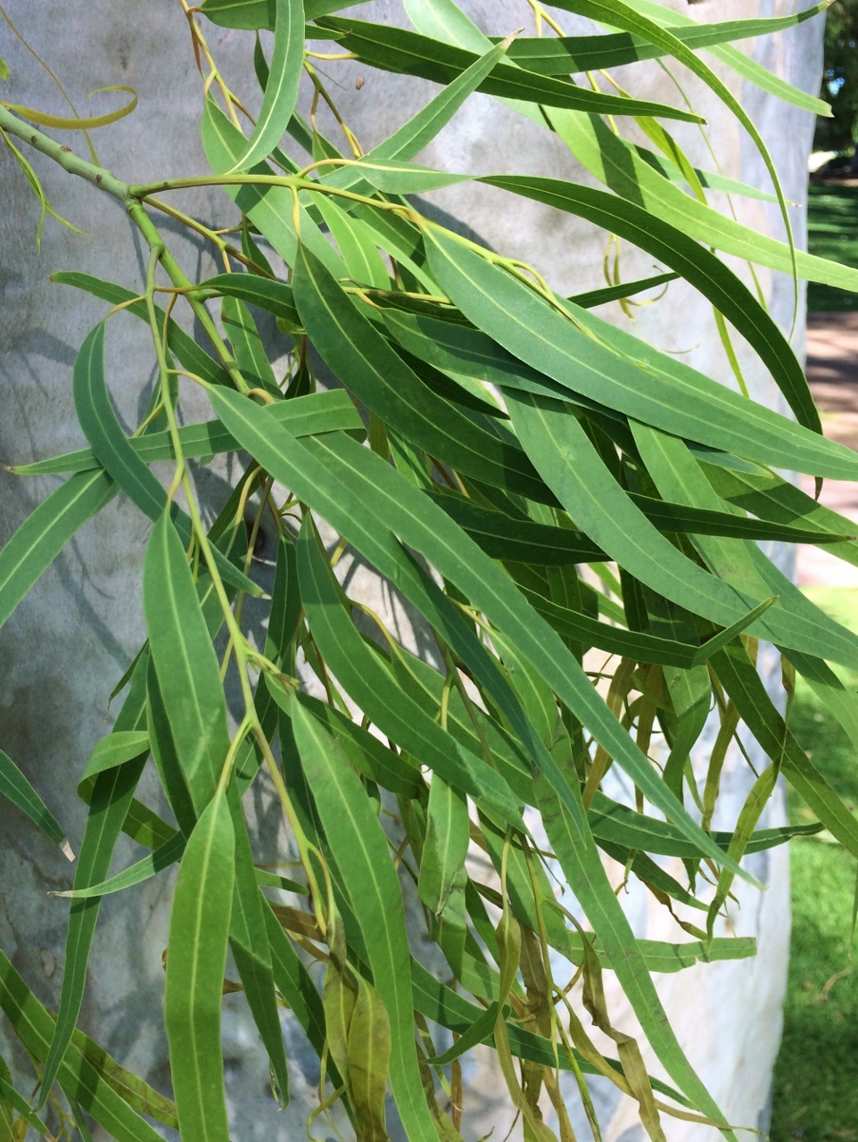 Corymbia citriodora (lemon-scented gum), showing juvenile leaves. Perth, Western Australia